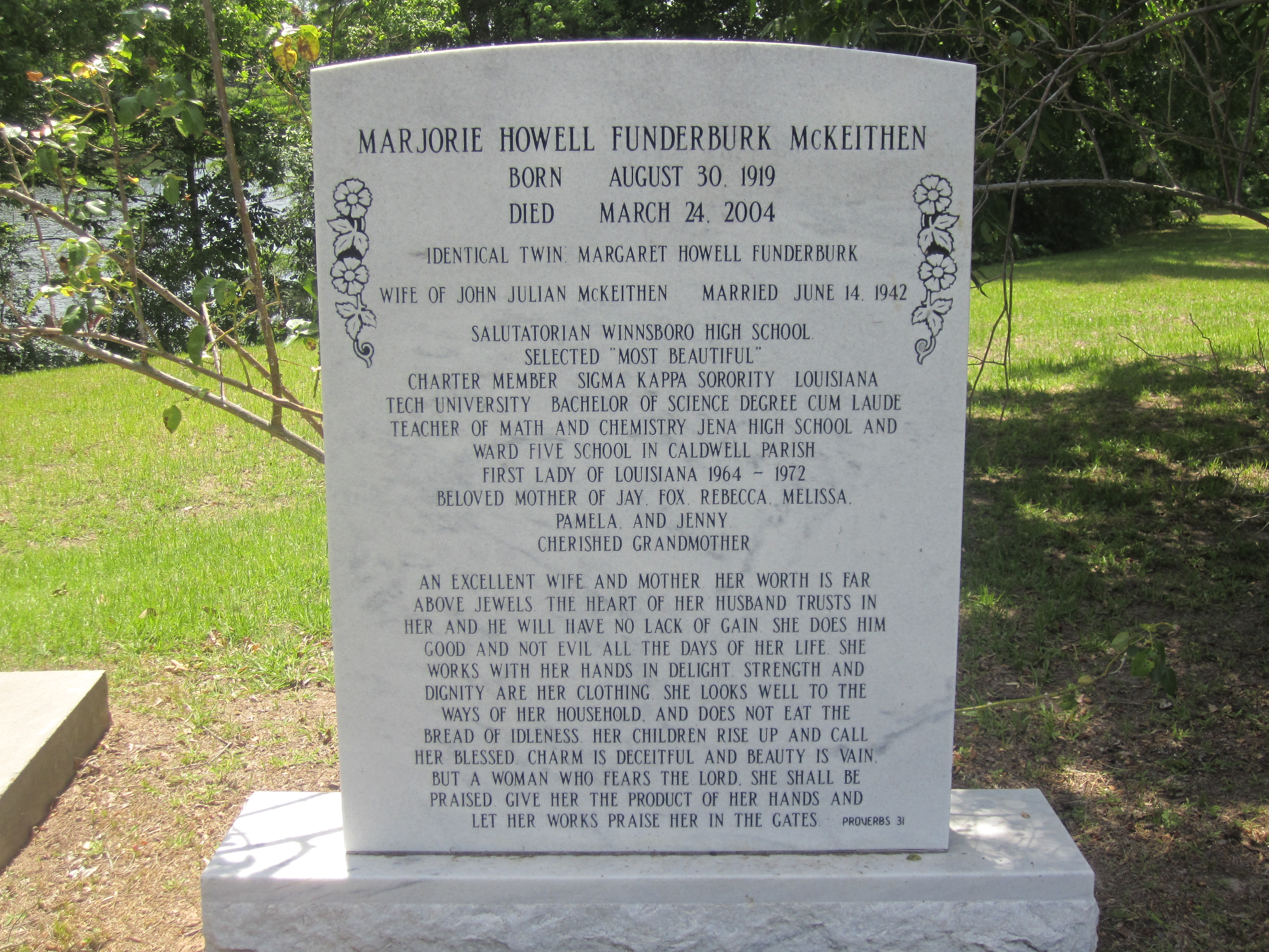 I took photo with Canon camera in Caldwell Parish, LA. It is the tombstone and grave of former first Lady Marjorie NcKeithen of Louisiana.